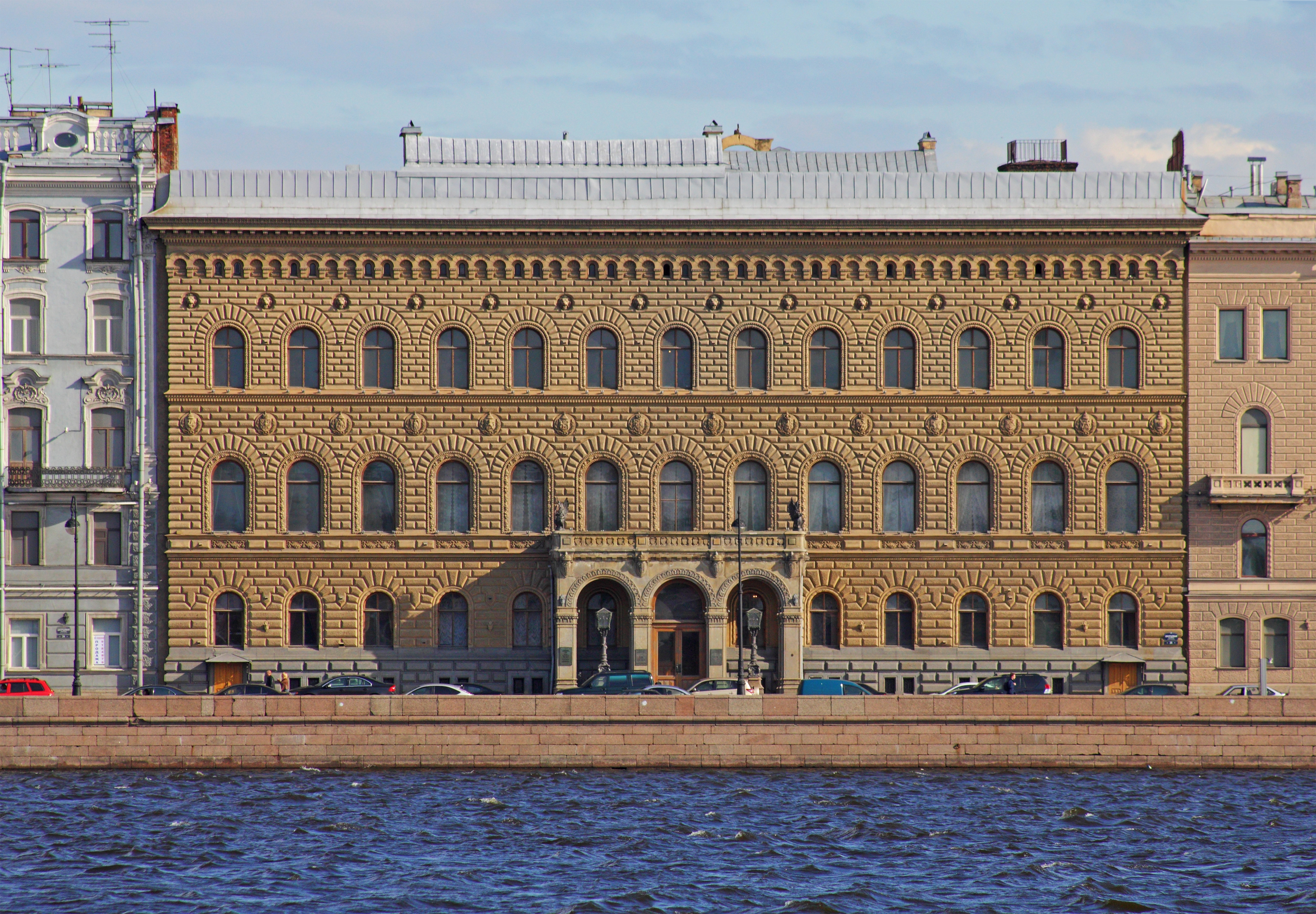 Saint Petersburg, Russia. Palace Embankment, house 26 (Vladimir Palace).